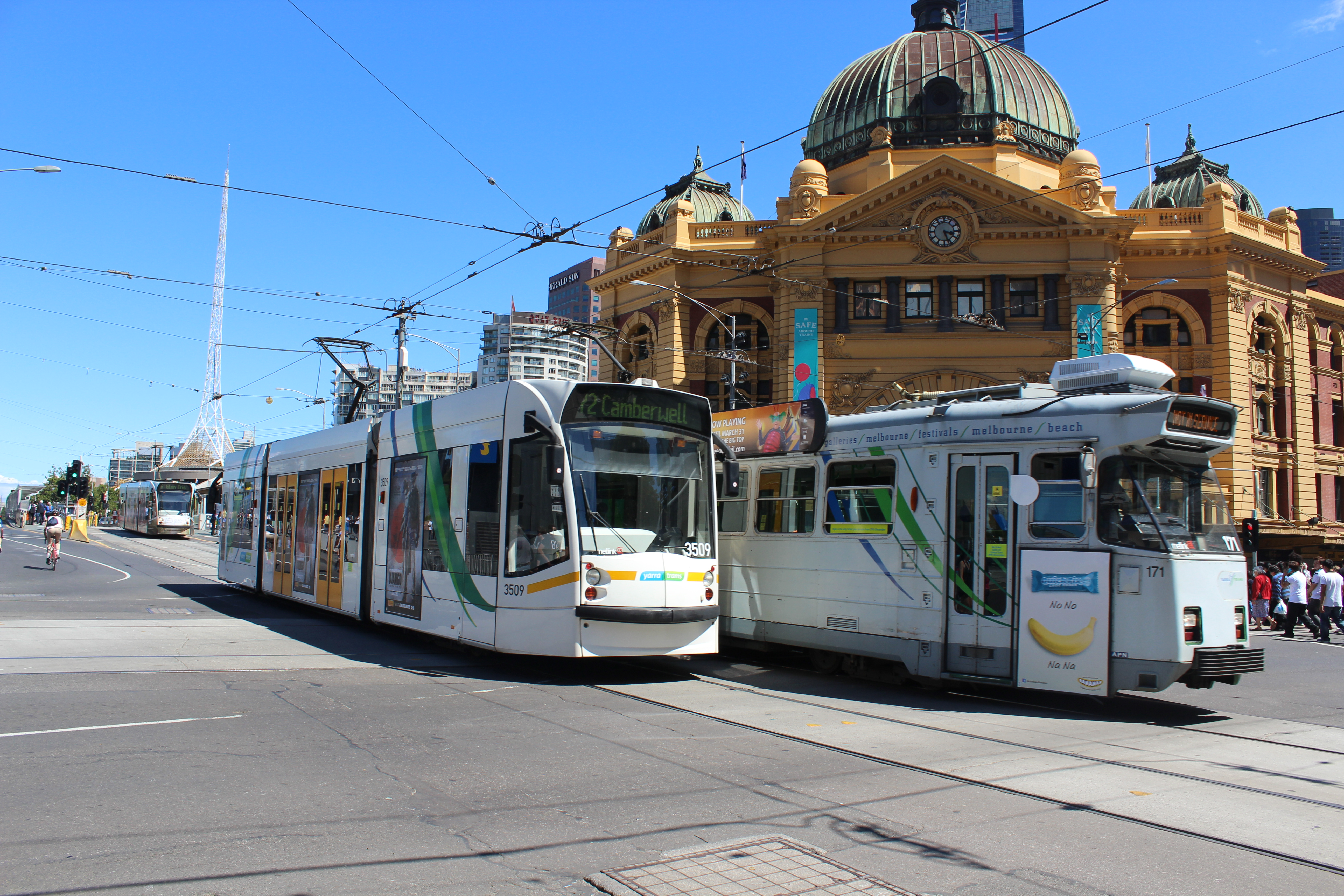 D1 3509 and Z3 171 passing Flinders Street Station in Swanston St